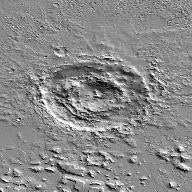 Lyot crater on Mars. MOLA shaded relief map, equidistant cylinder projection. Approx. 600 km N to S.